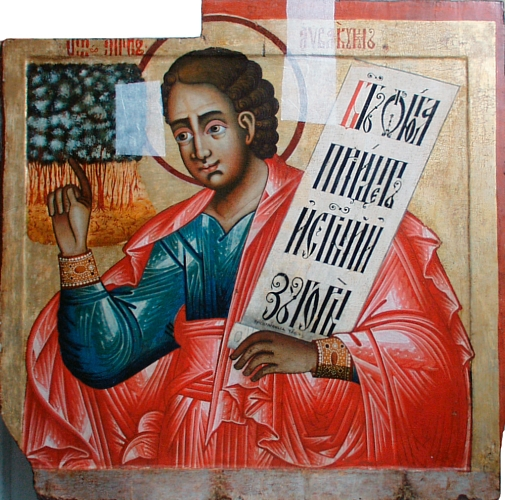 Habakkuk the prophet, Russian icon from first quarter of 18th cen.